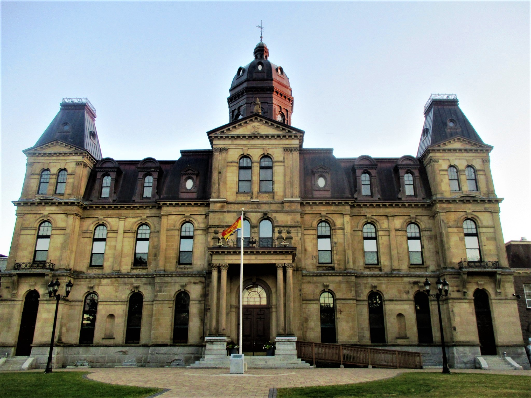 New Brunswick Legislative Building- National Historic Site of Canada -Fredericton- New Brunswick- Canada